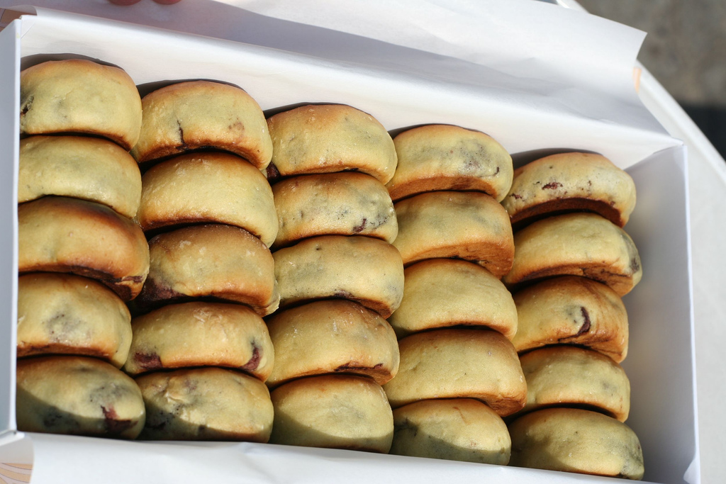 Gyeongju bread, a local specialty of Gyeongju, Gyeongsangnam-do, South Korea